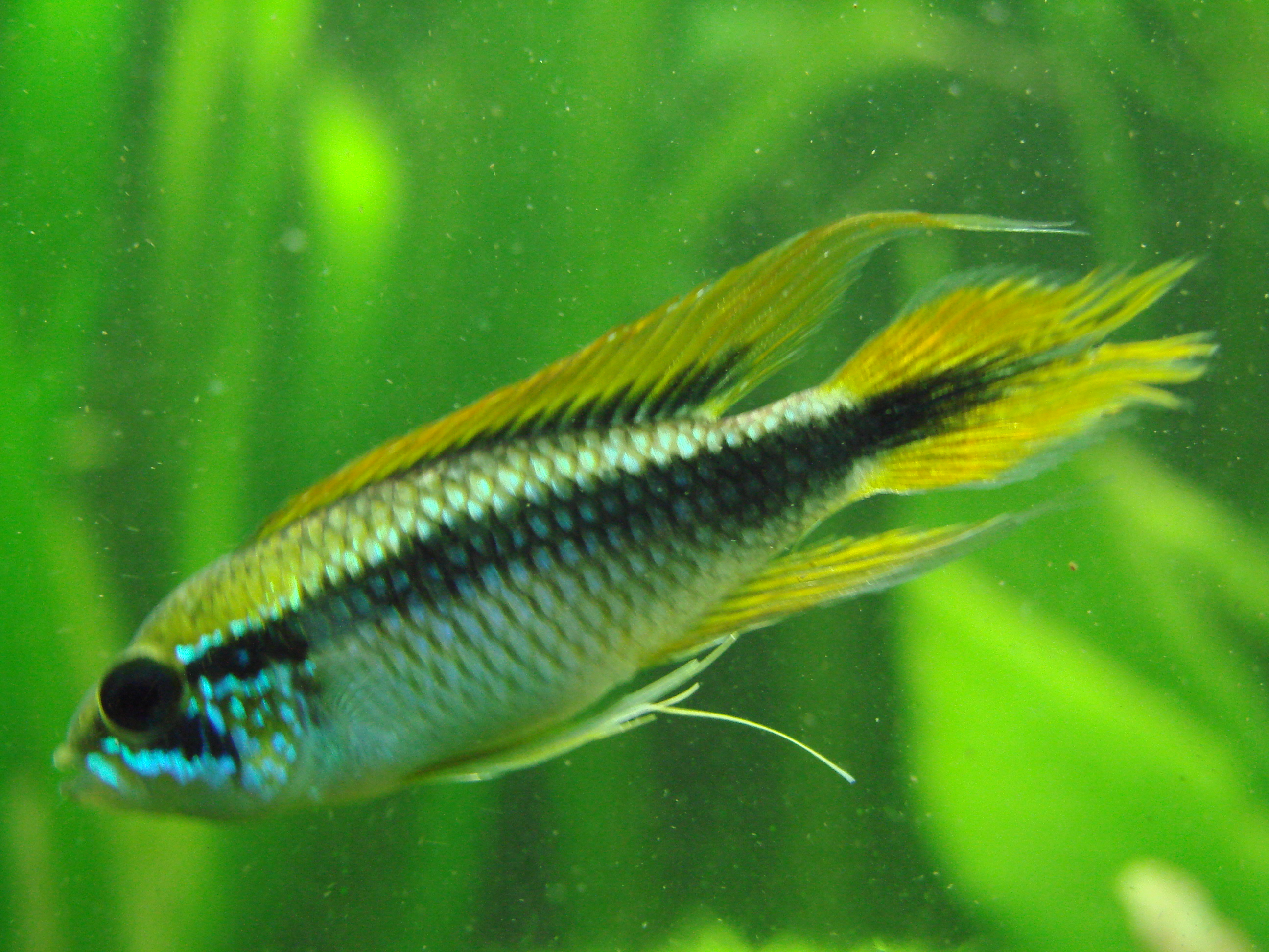 Picture taken in the zoo of Wrocław (Poland): Apistogramma agassizii (Steindachner, 1875)